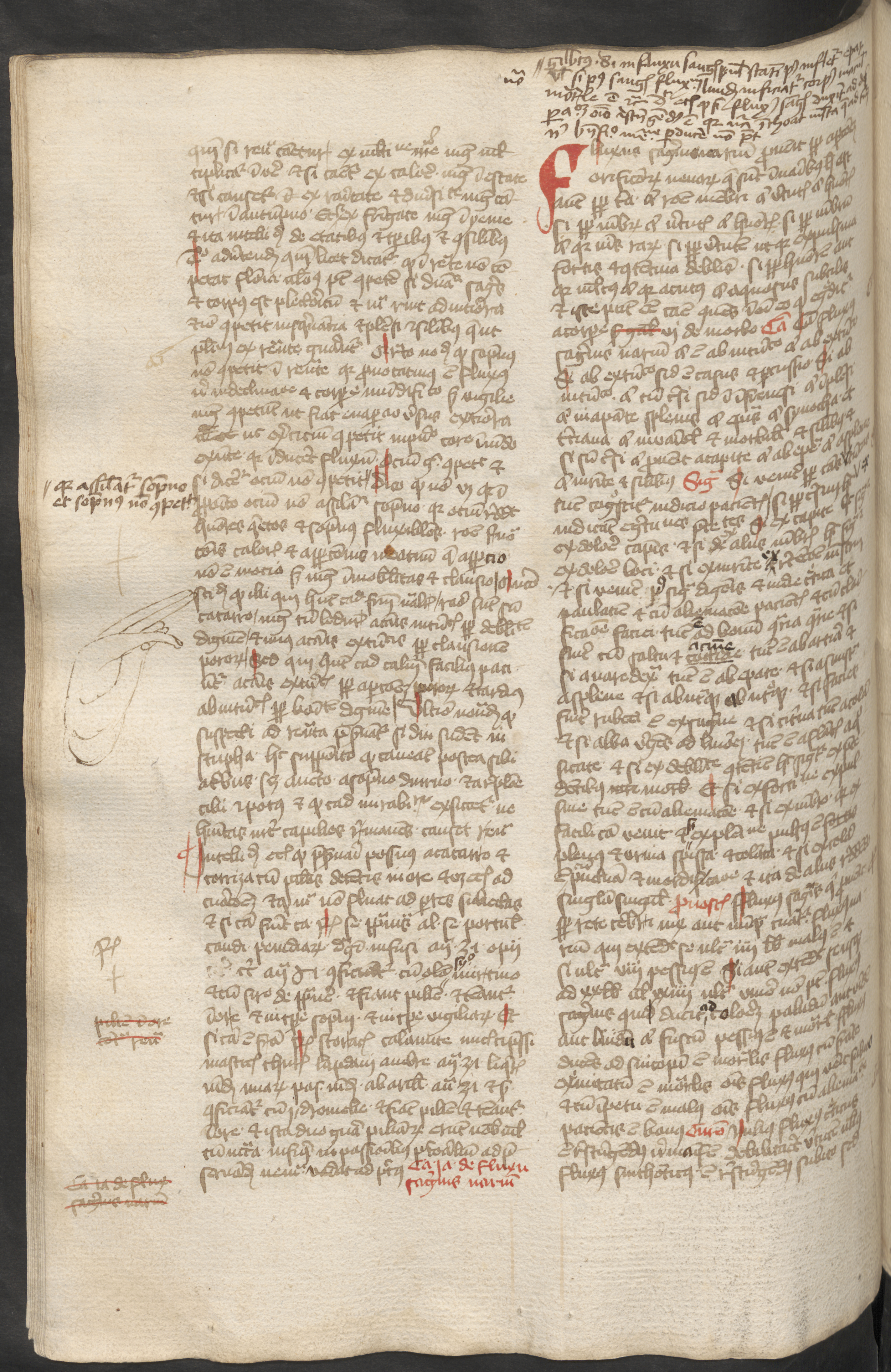 Ms.685, fol. 76v.